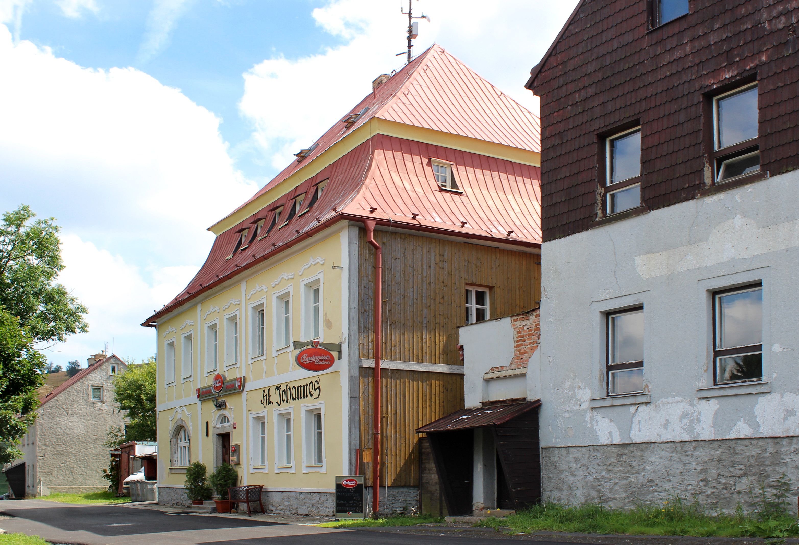 Old presbytery in Loučná pod Klínovcem, Czech Republic.